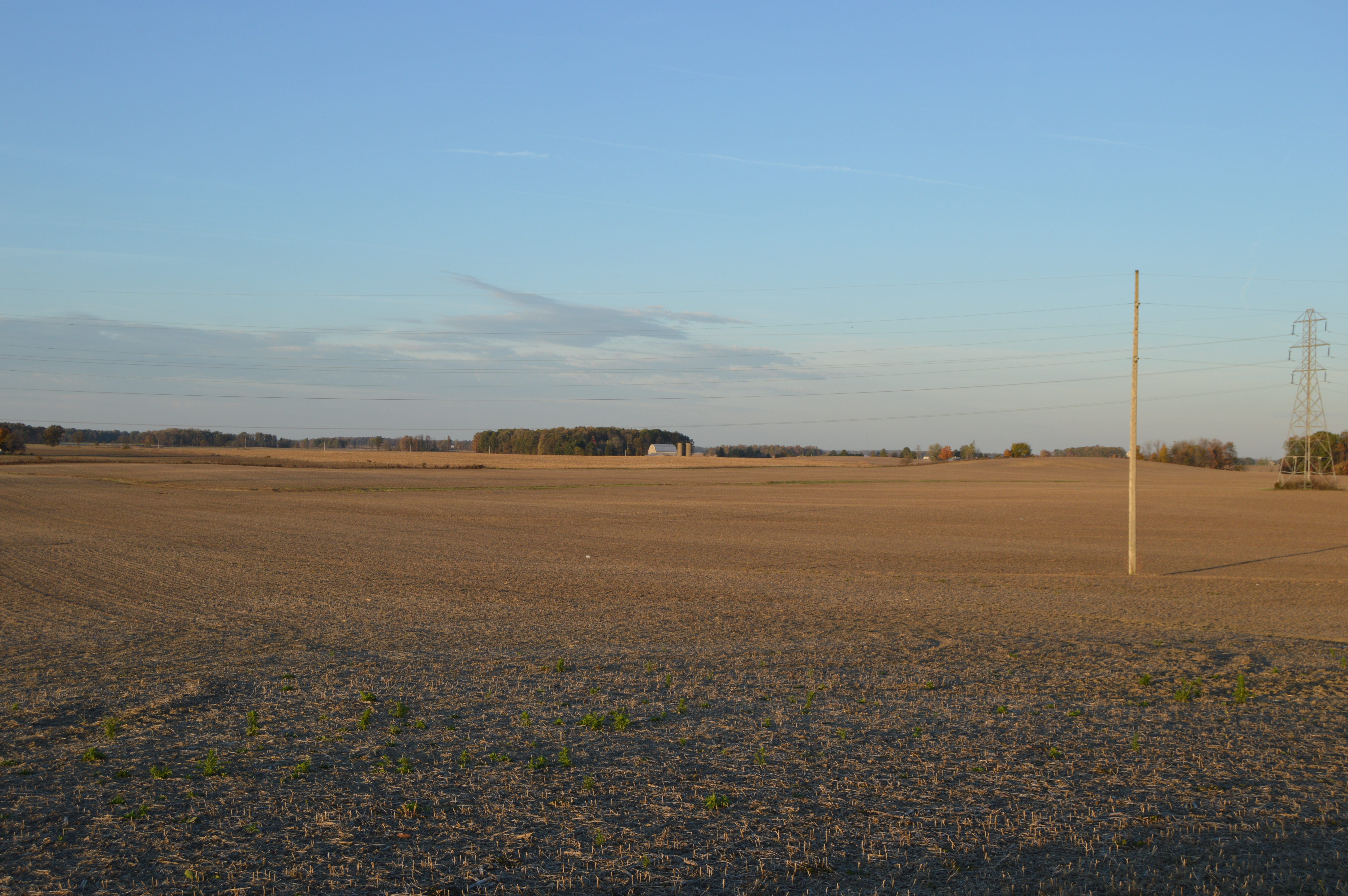 Fields in eastern Vernon Township, Crawford County, Ohio, United States, seen looking north from State Route 39 between the intersections with Hines and Hanna Roads.